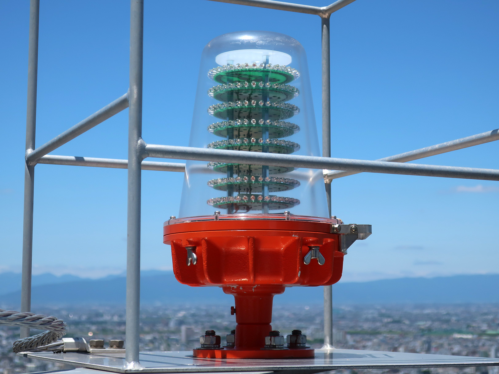 Nippon Koki Kogyo OM-7LC LED Low-intensity Obstacle Light with steel frames for lightning protection.